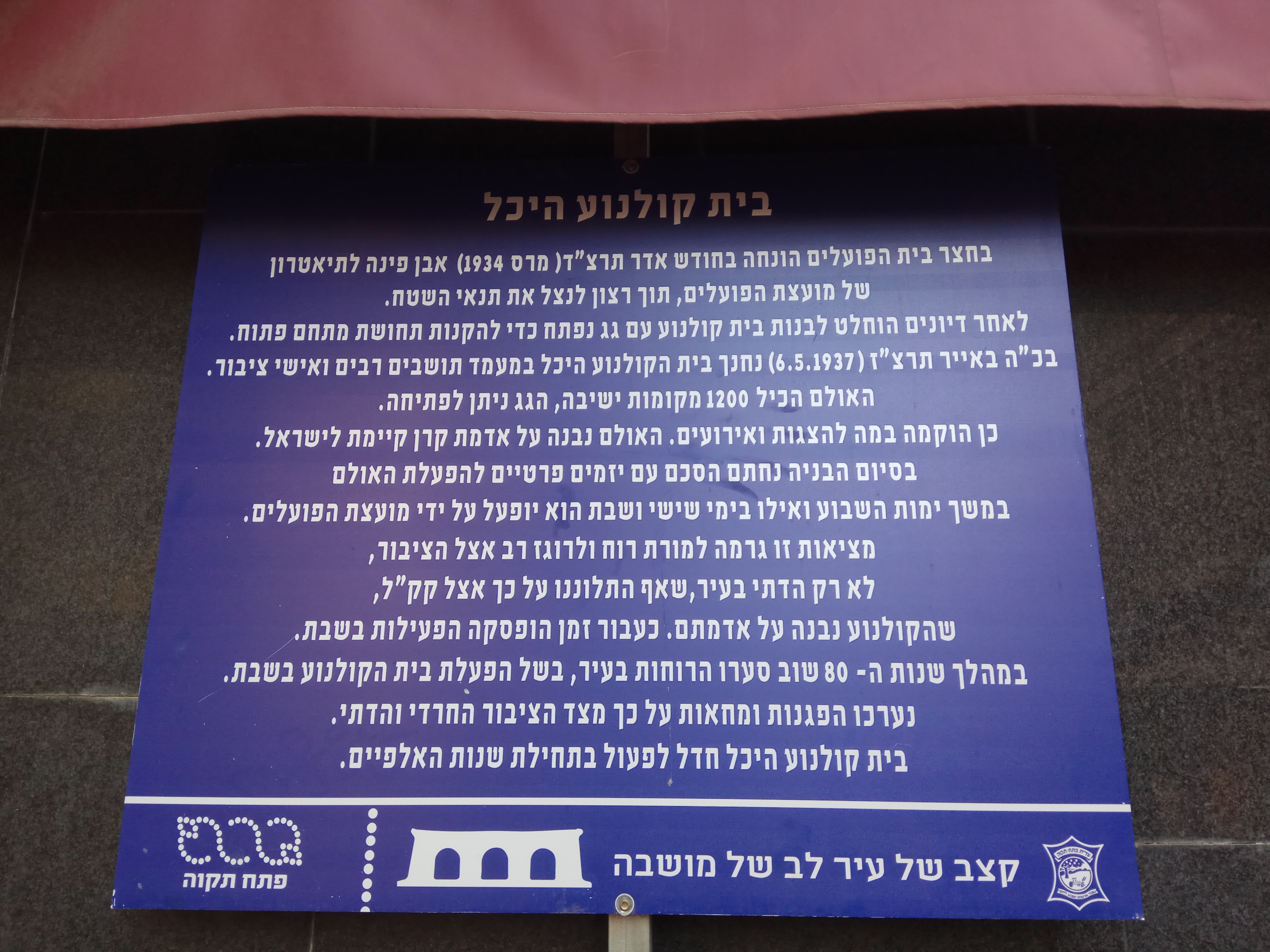 Cinema Heichal in Petach Tikva